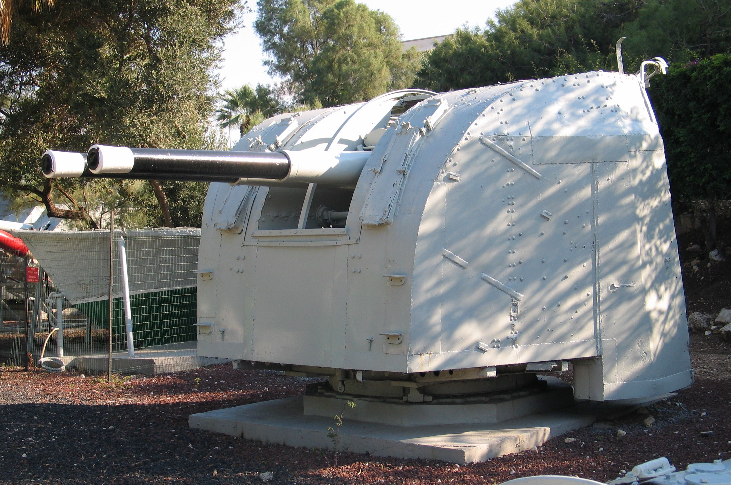 Twin 4-inch guns from INS Haifa (K-38) (apparently QF 4 in Mk XVI on twin mount Mk XIX) in the Clandestine Immigration and Naval Museum, Haifa, Israel.